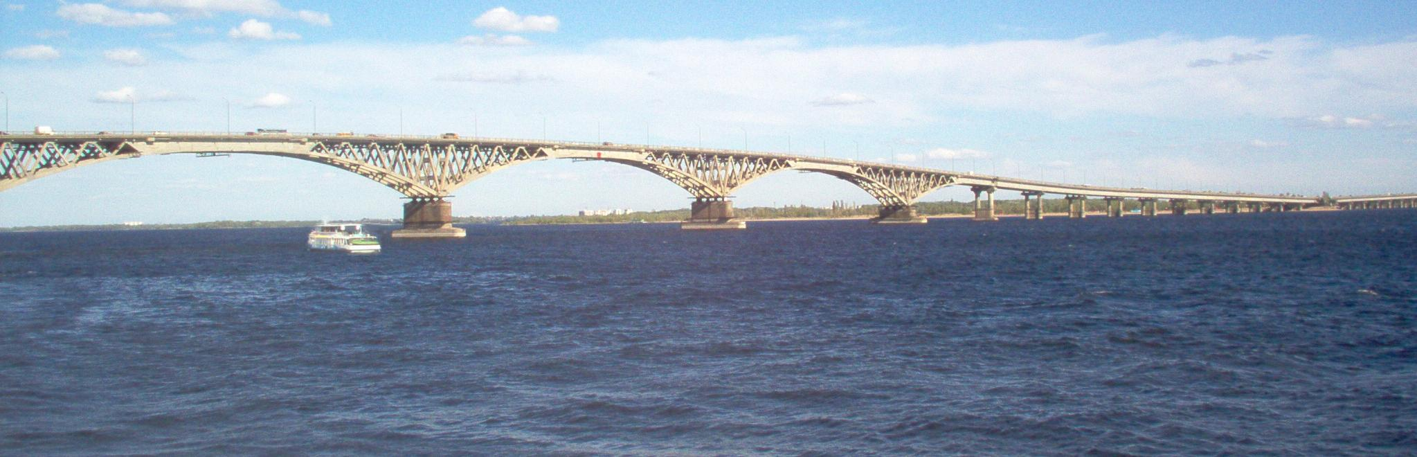 One of two bridges beetween Saratov and Engels (3km long). On the right side, near the Engels waterside, a small island, used as a a swimming beach, can be seen